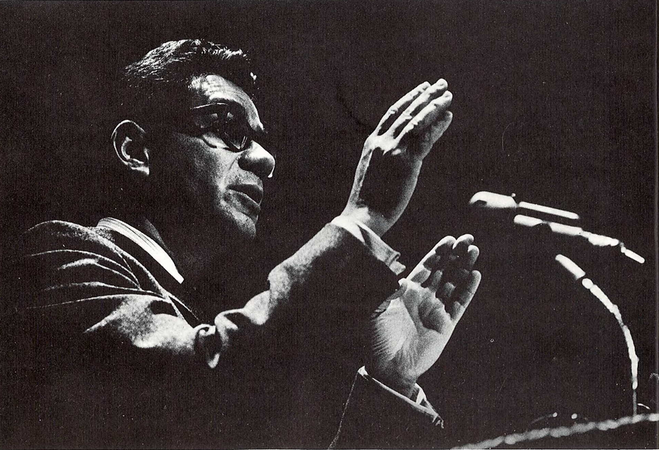 Photograph Mark Lane at the University of Michigan campus in Ann Arbor.